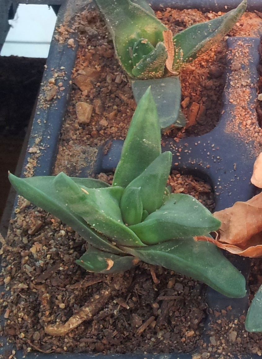 Haworthia scabra var lateganii lateganiae